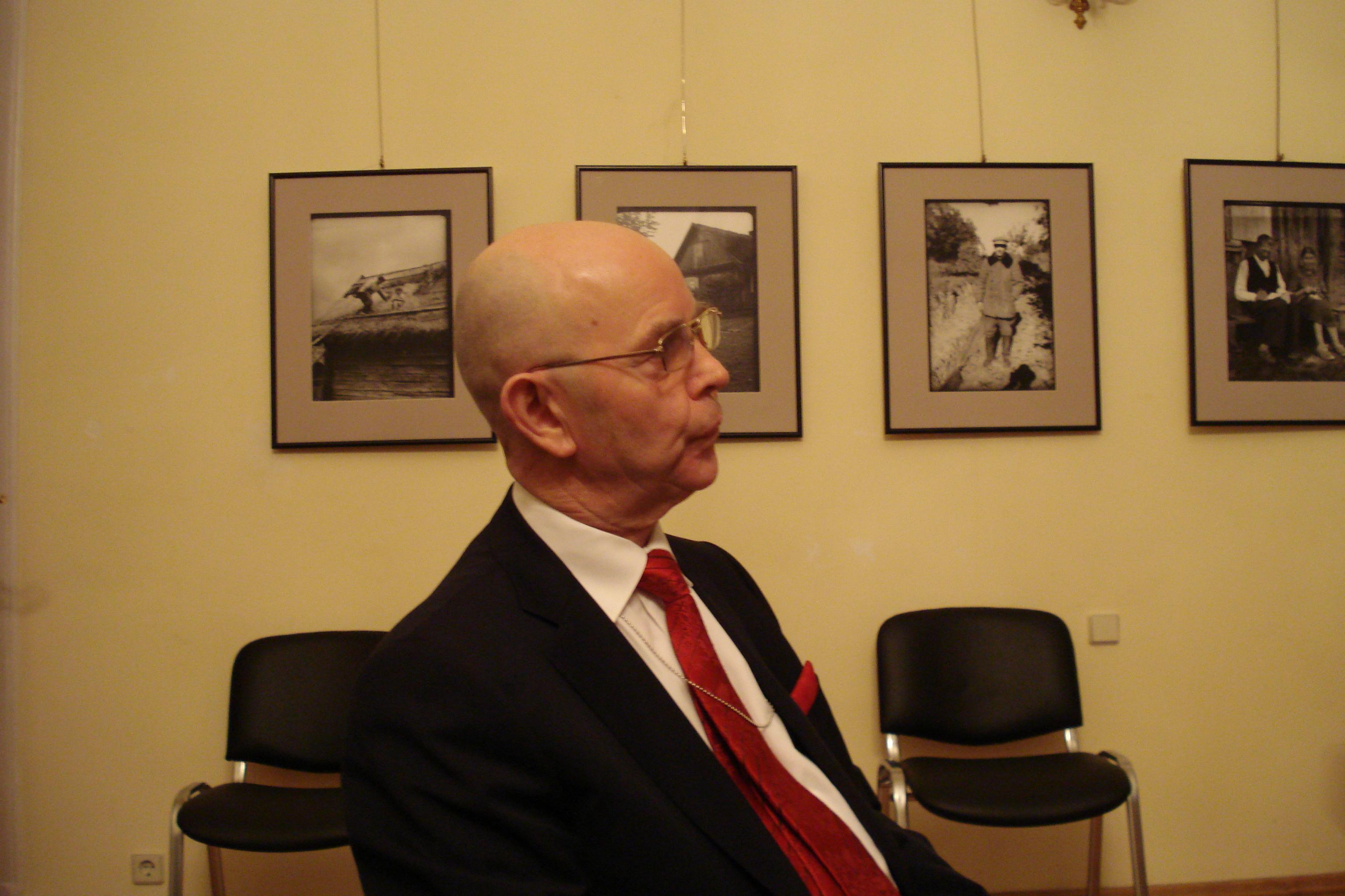 Antanas Vinkus (born 25 december 1942), Lithuanian politicians, ambassador to Estonia (2002-2006), Latvia (2006-2008), Russia